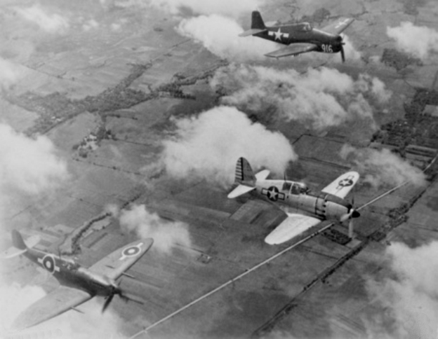 Over the Philippines, a formation of aircraft led by a captured Japanese Navy interceptor fighter aircraft Mitsubishi J2M Raiden (Thunderbolt, allied code name "Jack"), of the Technical Air Intelligence Unit, South West Pacific Area (SWPA) located at Clark Field, Luzon (Philippines) from the end of January 1945. The aircraft was recovered from a makeshift airstrip in Manila when American forces recaptured the city. Other aircraft in the formation are a Royal Navy Seafire (lower left) and a U.S. Navy Grumman F6F-5 Hellcat. The Mitsubishi J2M's development to full combat status was delayed by technical problems and production indecision, resulting in employment being mainly in the defence of Japan from USAAF bombing.